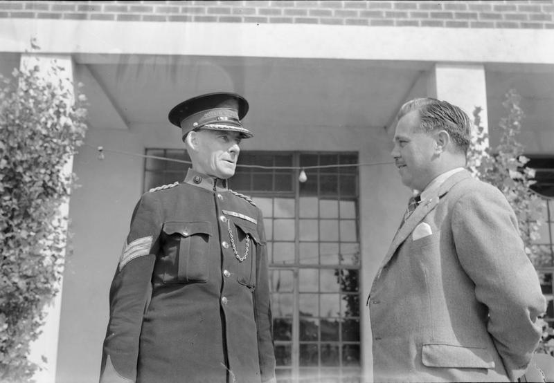 Holiday Camp Gets Going Again- Everyday Life at a Butlin's Holiday Camp, Filey, Yorkshire, England, UK, 1945 Billy Butlin, MBE, (right) chats to Sergeant J Caffrey, VC, (left) one of the Commissionaires at Filey Holiday Camp. According to the original caption, Sgt Caffrey, VC, won his Victoria Cross at Ypres during the First World War.